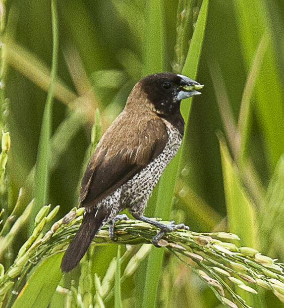 Black-faced Munia - Sulawesi_MG_5777